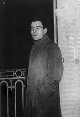 Carlos Correas- Filosofo y escritor